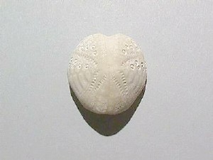 Lovenia woodsi from the Pliocene of Portland, Victoria, Australia. Matrix free specimen measuring 2.6 cm (1") in length.